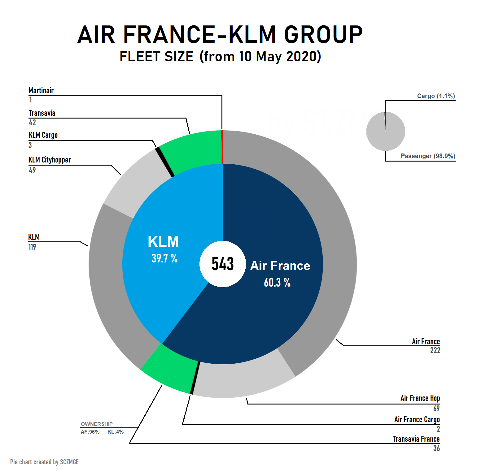 Air France-KLM Group fleet size (Wholly owned only) - Valid from 10 May 2020. Data retrieved from on 9 May 2020.